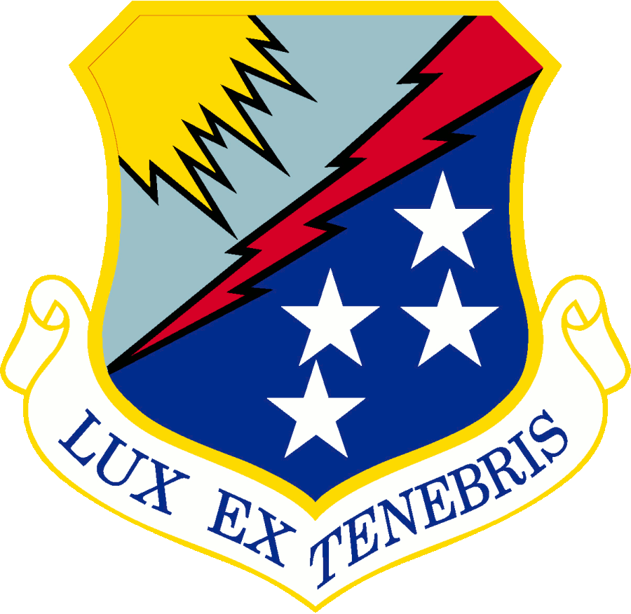 Emblem of the 67th Network Warfare Wing, a wing of the United States Air Force